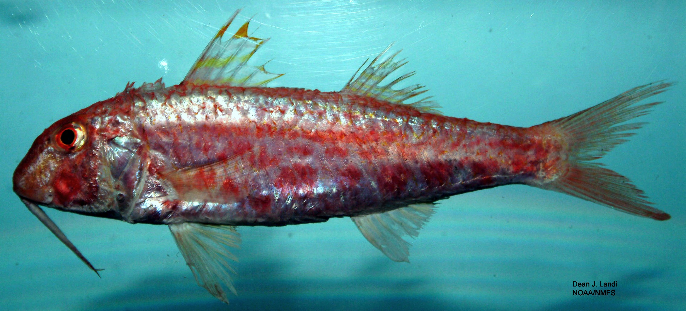 Red goatfish (Mullus auratus). Gulf of Mexico.